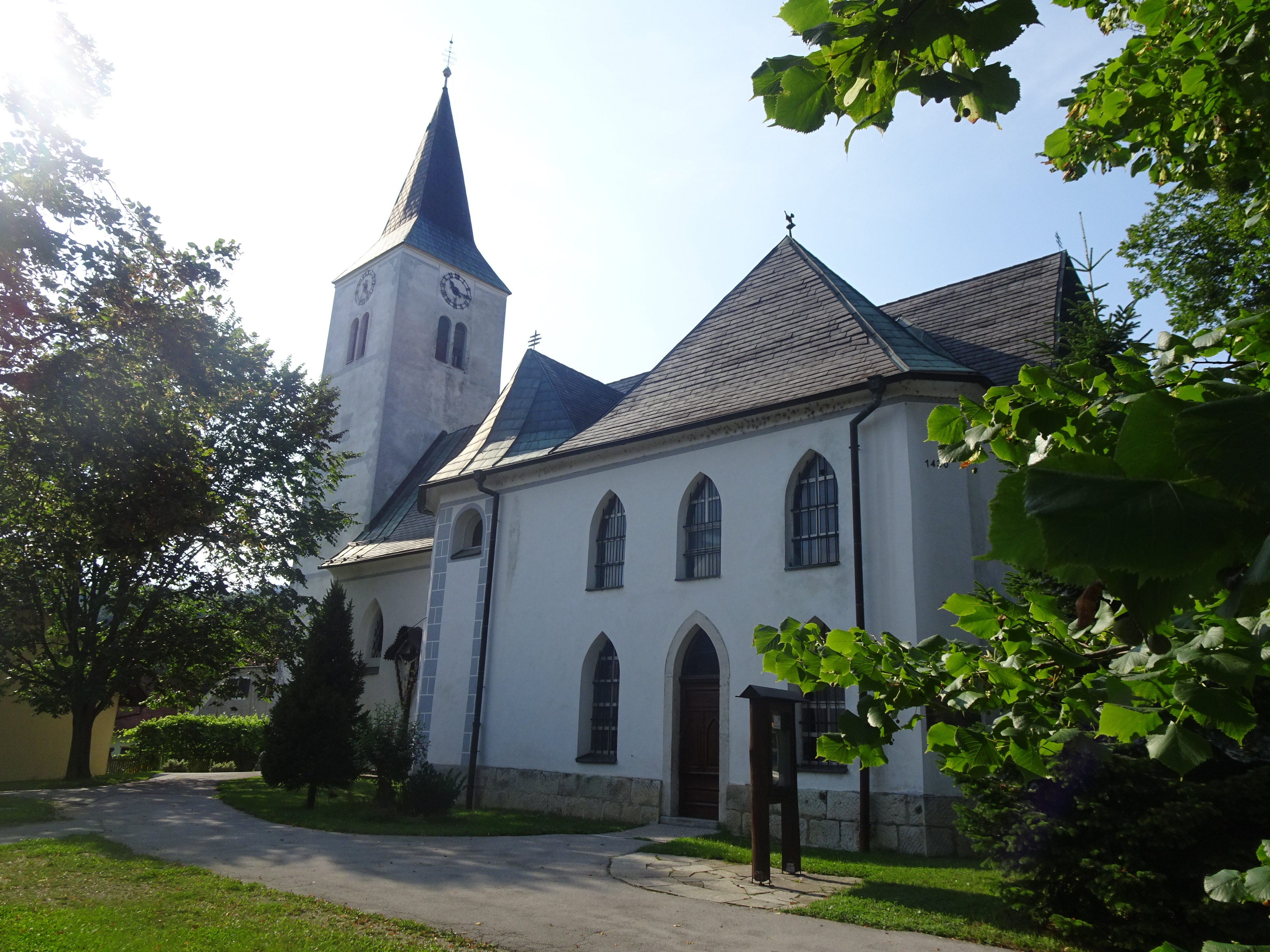 Loče, parish church, Slovenske Konjice Municipality, Slovenia